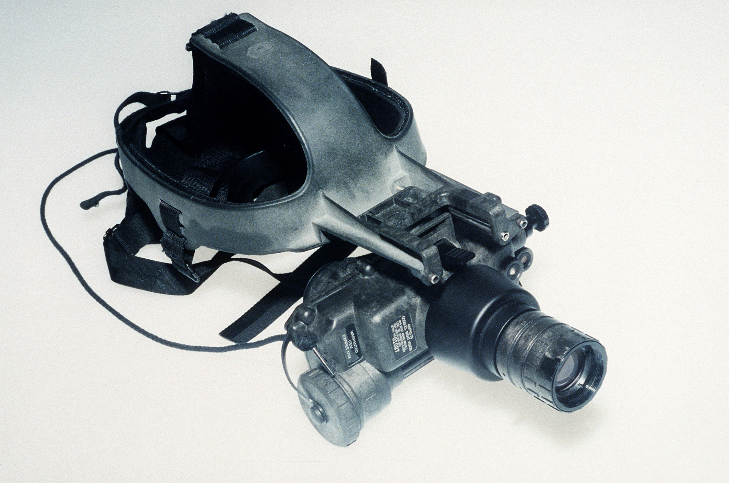 AN/PVS-7 Cyclops 3rd generation goggle. The system is in the final stage of development.